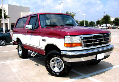 Two tone late model Ford Bronco